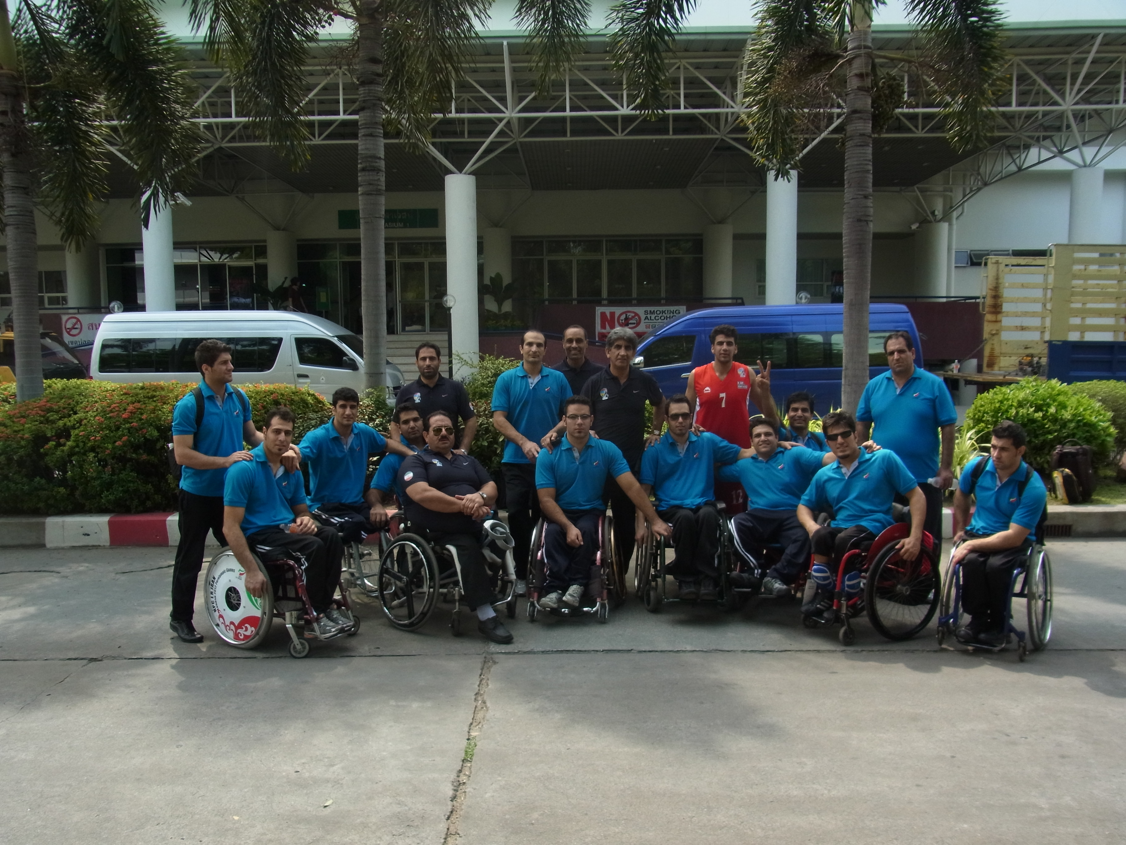 Iranian mens wheelchair basketball team 2013